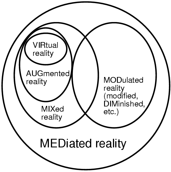 Mediated Reality is a proper superset of Augmented Reality, Mixed Reality, etc..